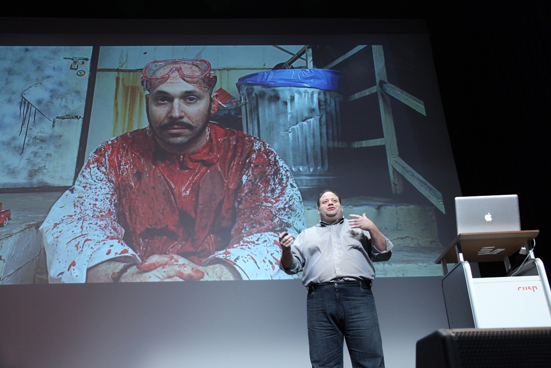 Adam Sadowsky presenting at the Cusp Conference, Chicago IL September 2011